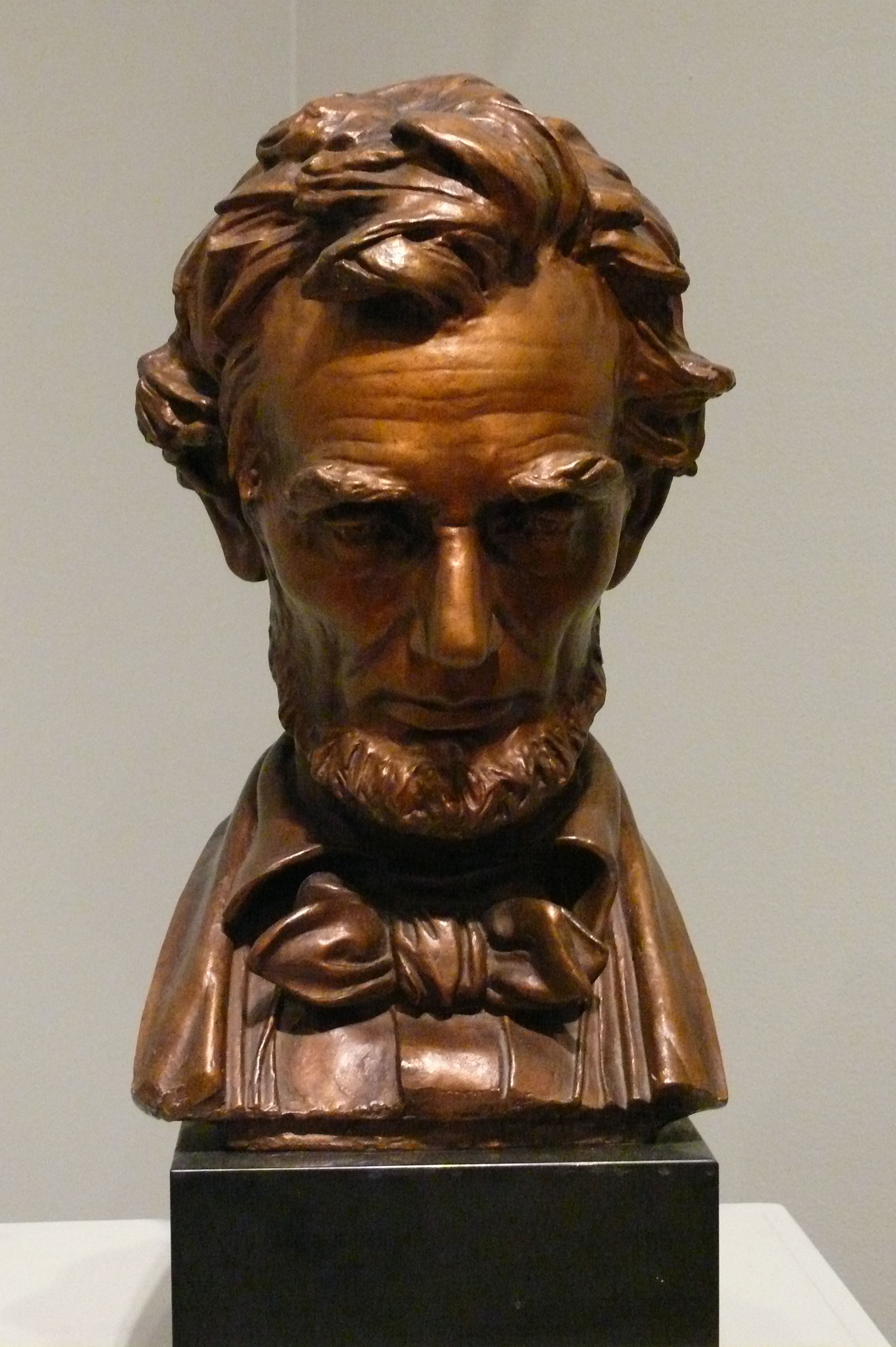 Augustus Saint Gaudens (1848-1907), Head of Abraham Lincoln. Bust in the Delaware Art Museum, Wilmington Cast ca. 1923, from head of the Standing Lincoln in Lincoln Park, Chicago, Ill. Bronze with marble base Gift of Rufus Erickson, 2002 Accession no: DAM 2002-6